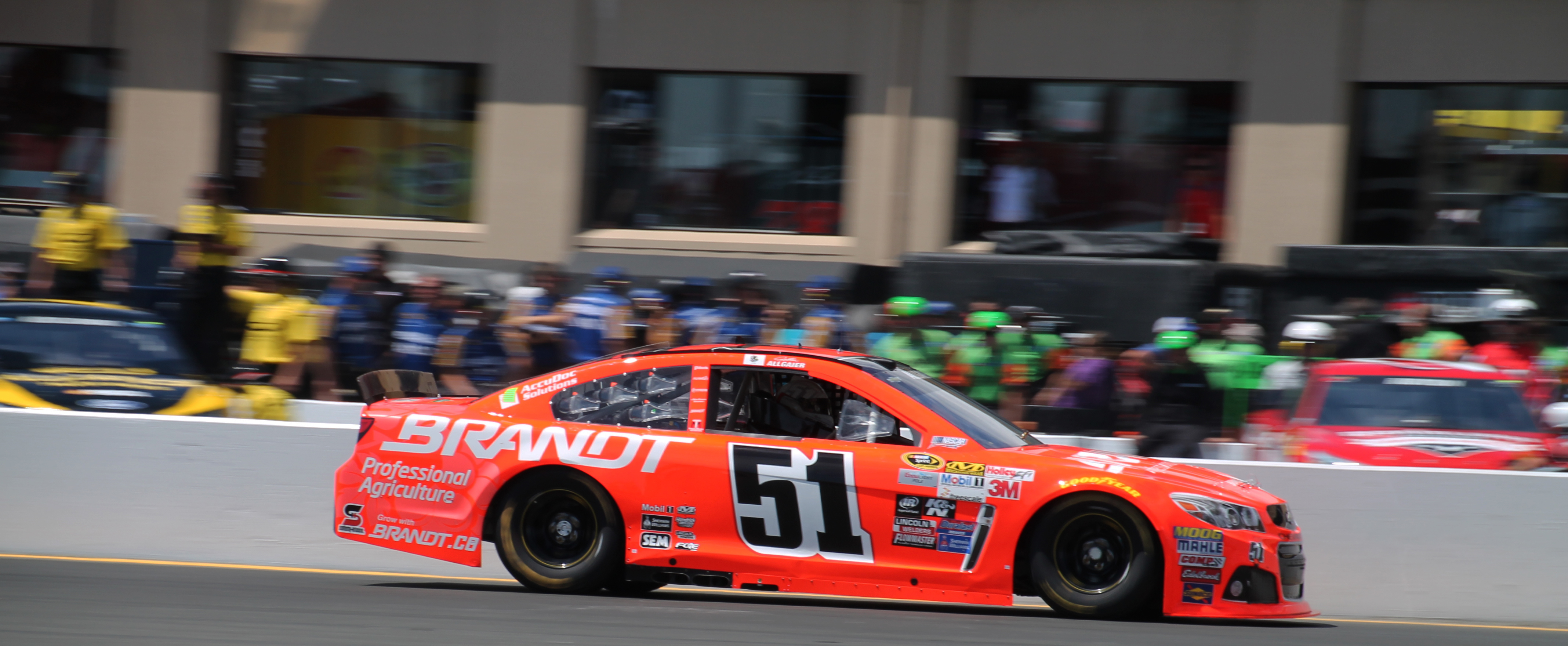 Justin Allgaier during 2015 Toyota/Save Mart 350 qualifications. Sonoma, California